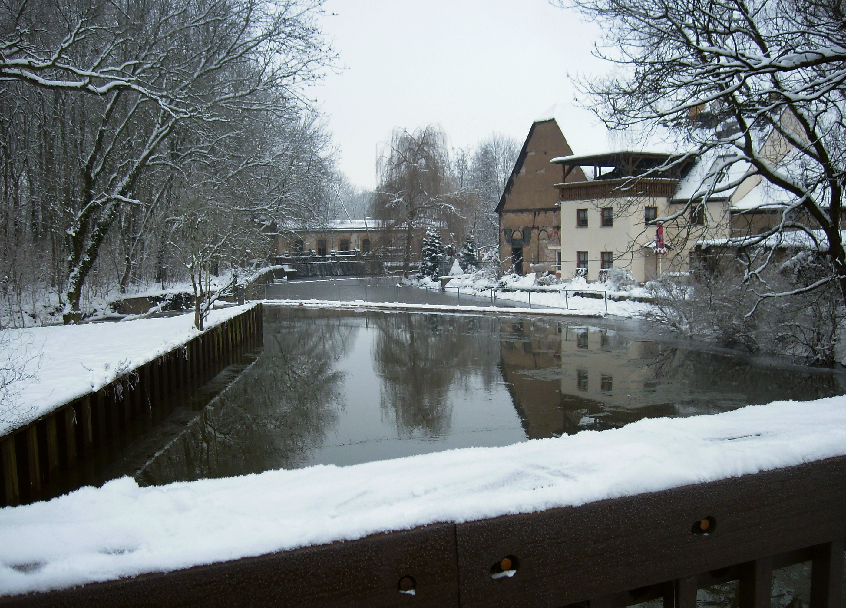 Weisse Elster river between Castle Bridge and watermill in Lützschena (Leipzig, Saxony)